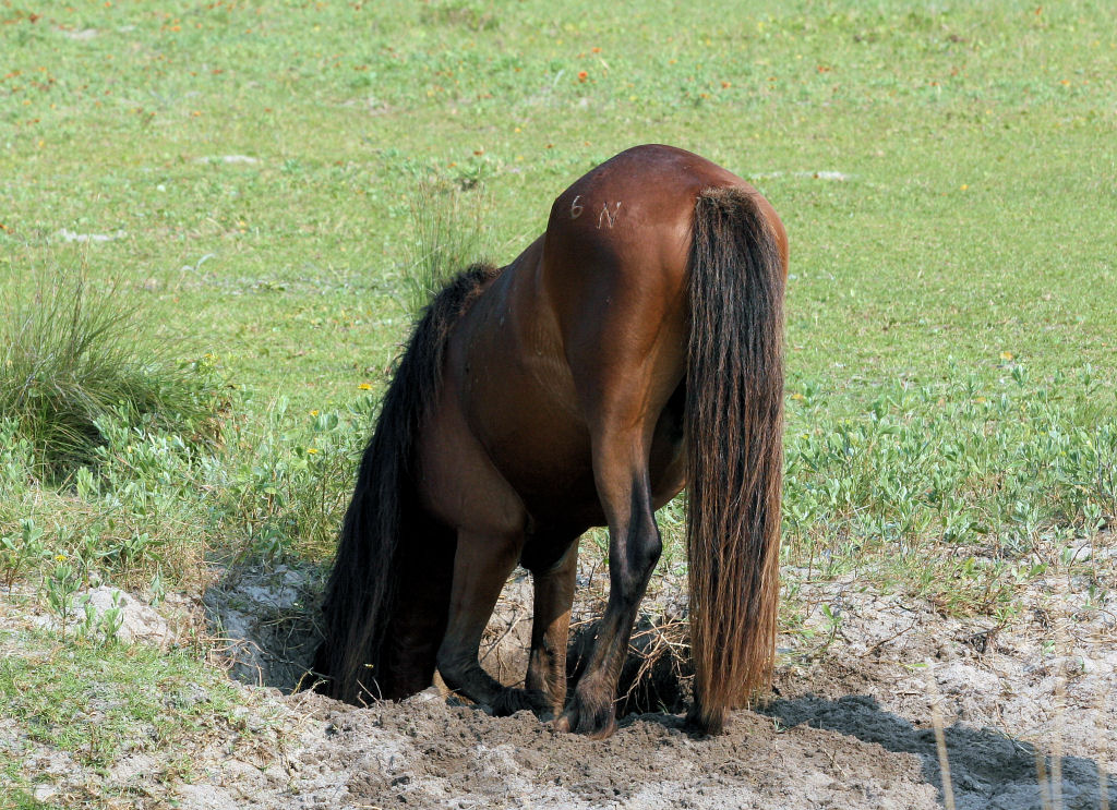 A Banker (feral horse) on Shackleford Banks (NC) digging a water hole.